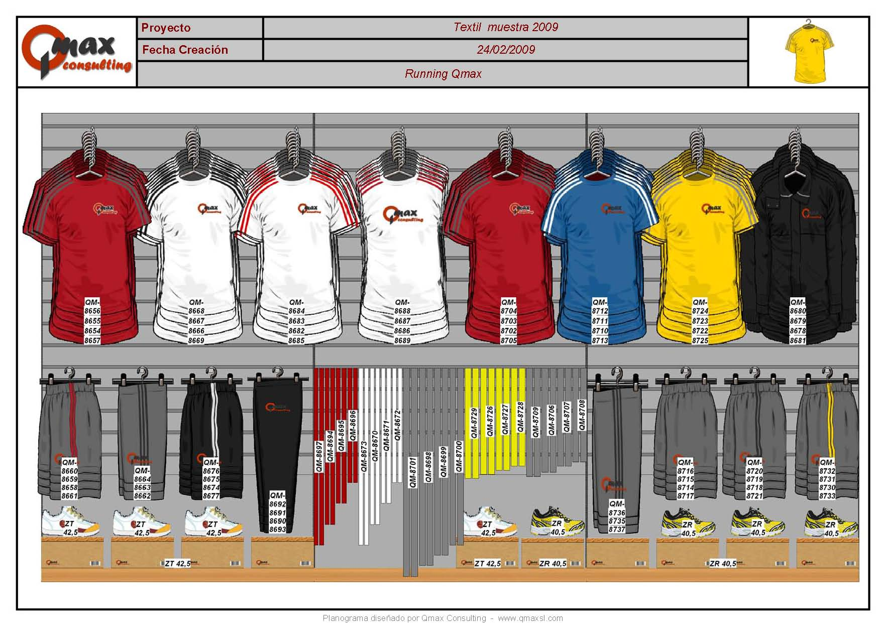 Textil Planogram Example